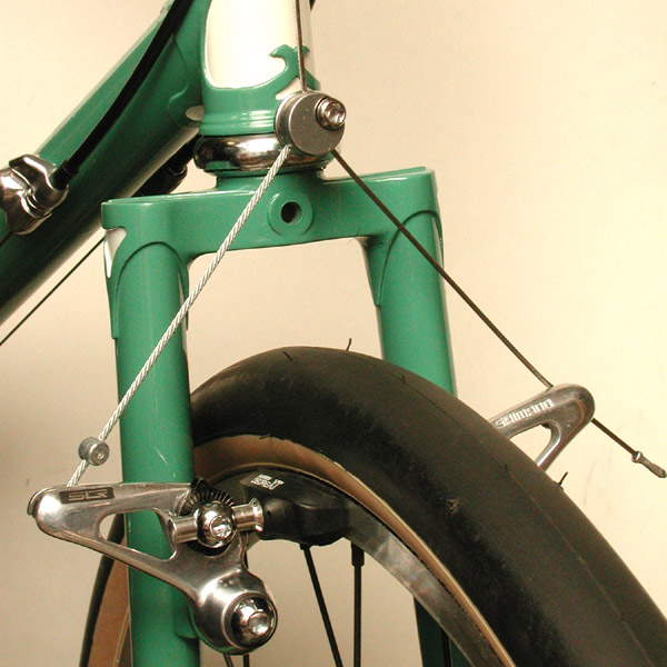 Cantilever brake